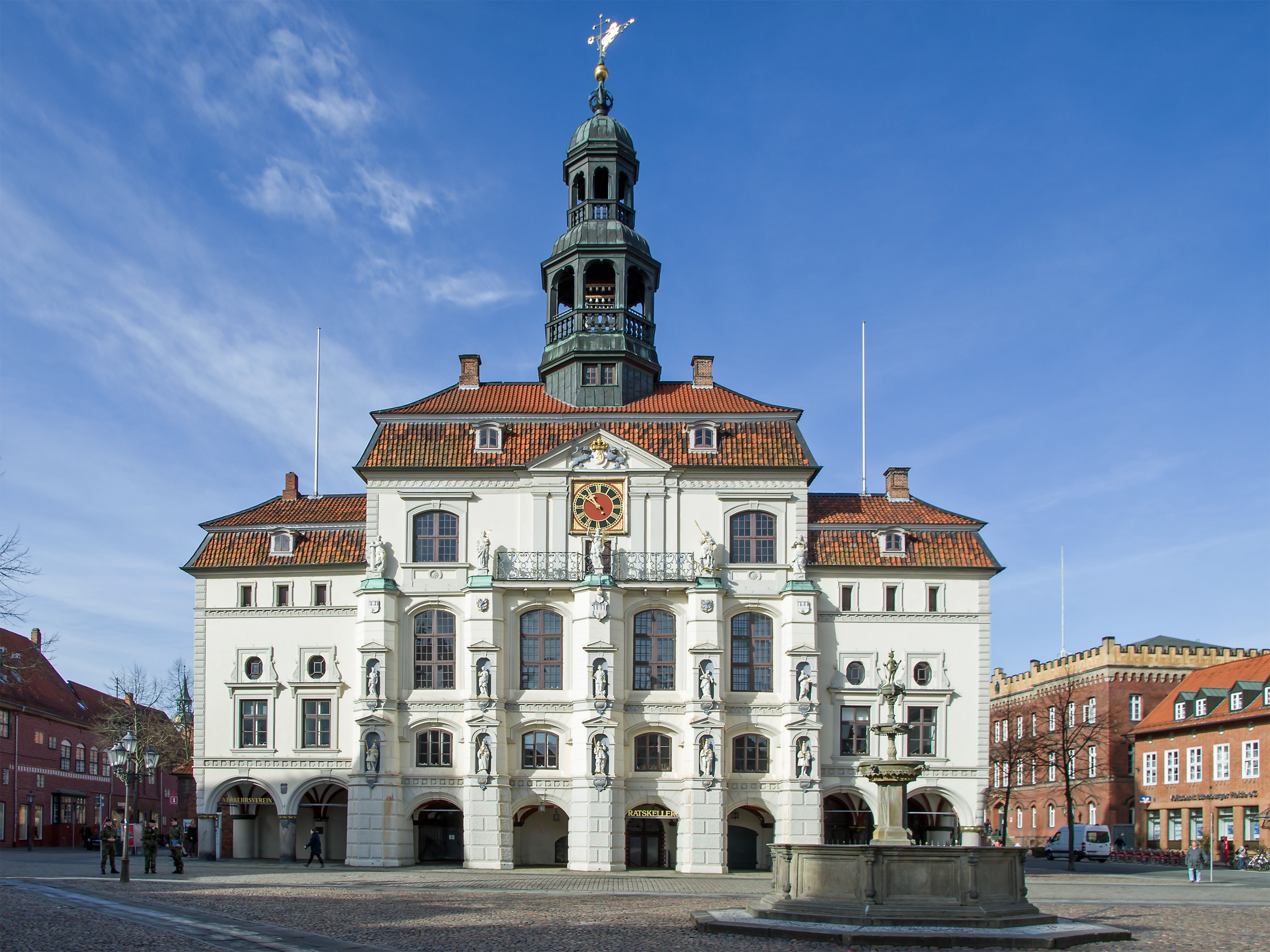 Townhall of Luneburg. North-eastern Lower Saxony, Germany.